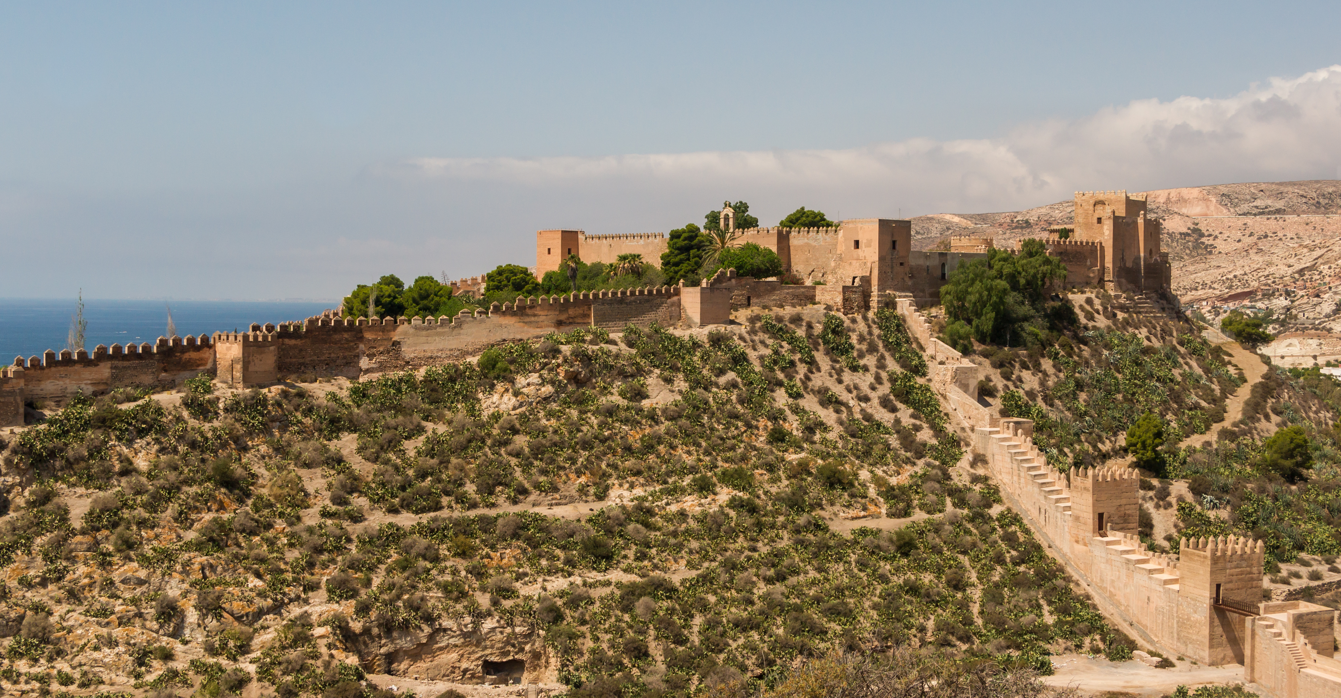 Alcazaba of Almeria, Spain.